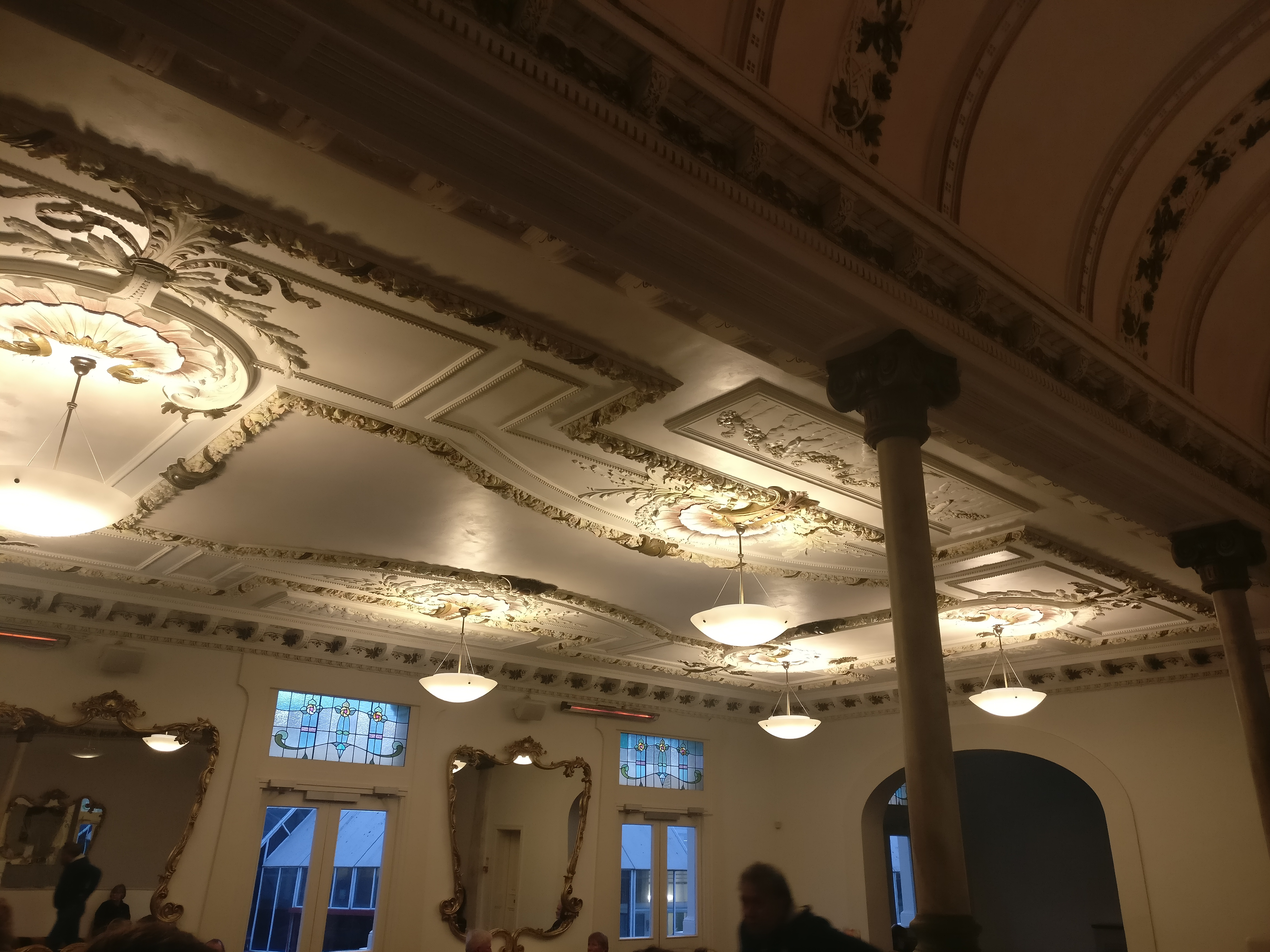 Restored upstairs ceiling in the Wellington Opera House.